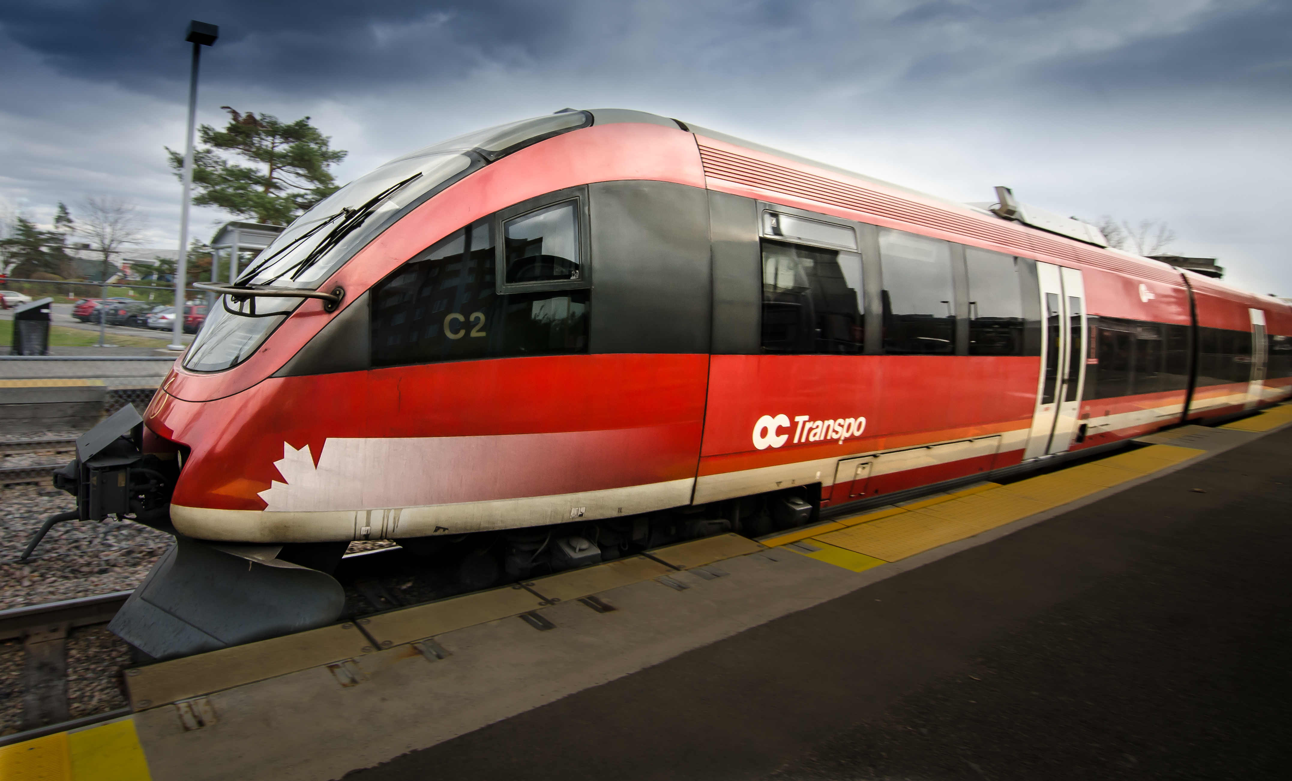 O Train at Carleton Station